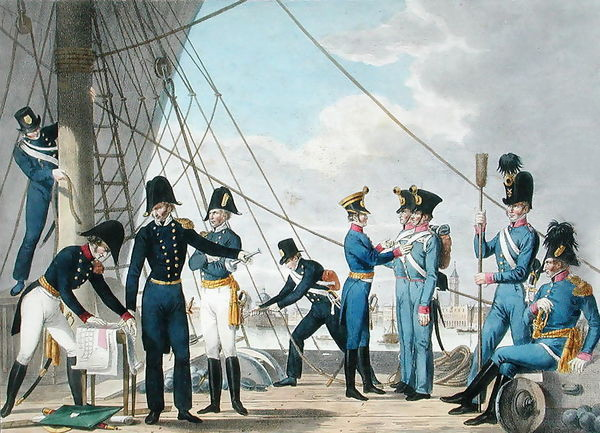 the austrian navy in 1820